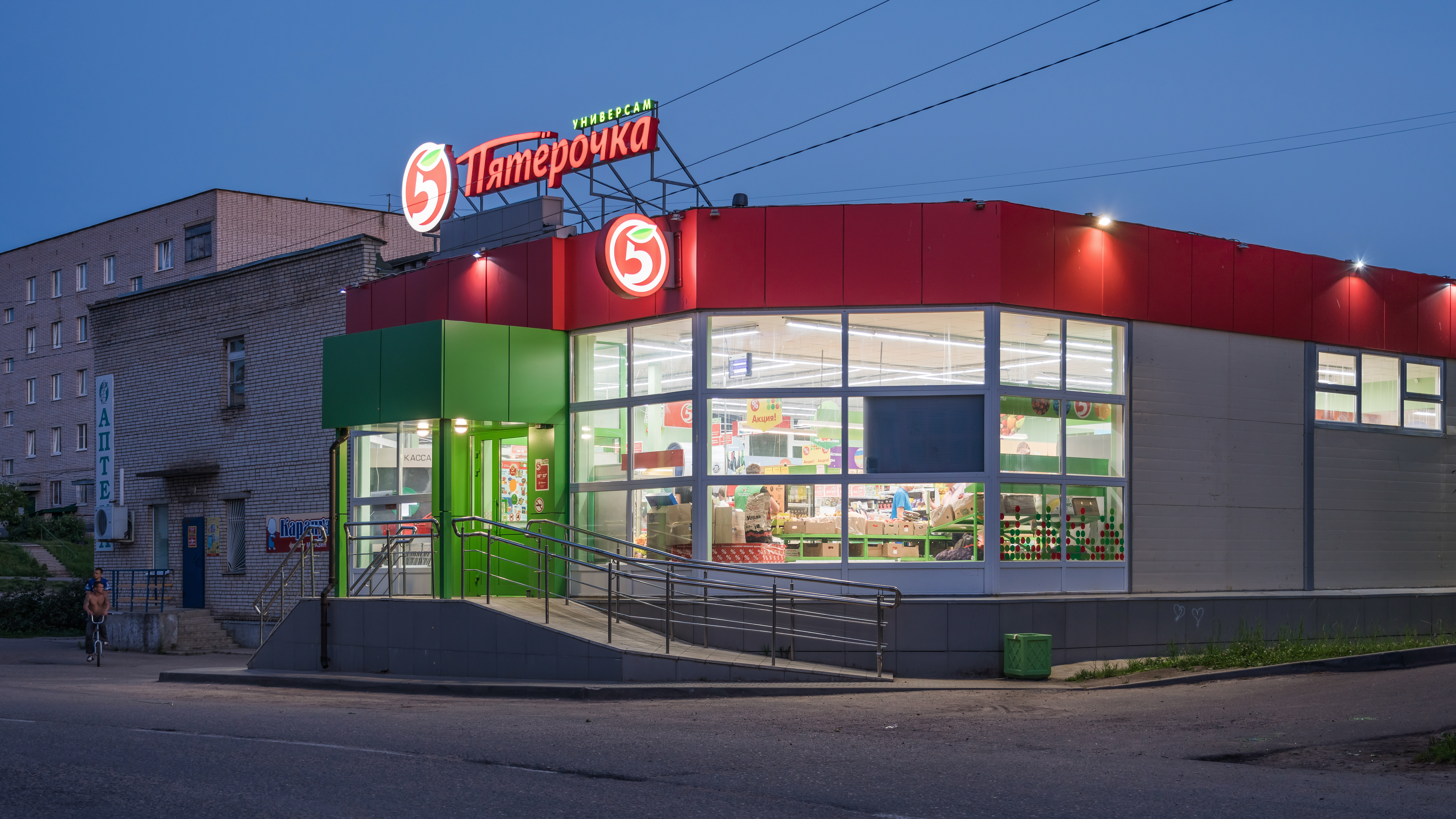 Building at Truda Street 33 (Pyaterochka supermarket) in Valdai, Novgorod Oblast, Russia